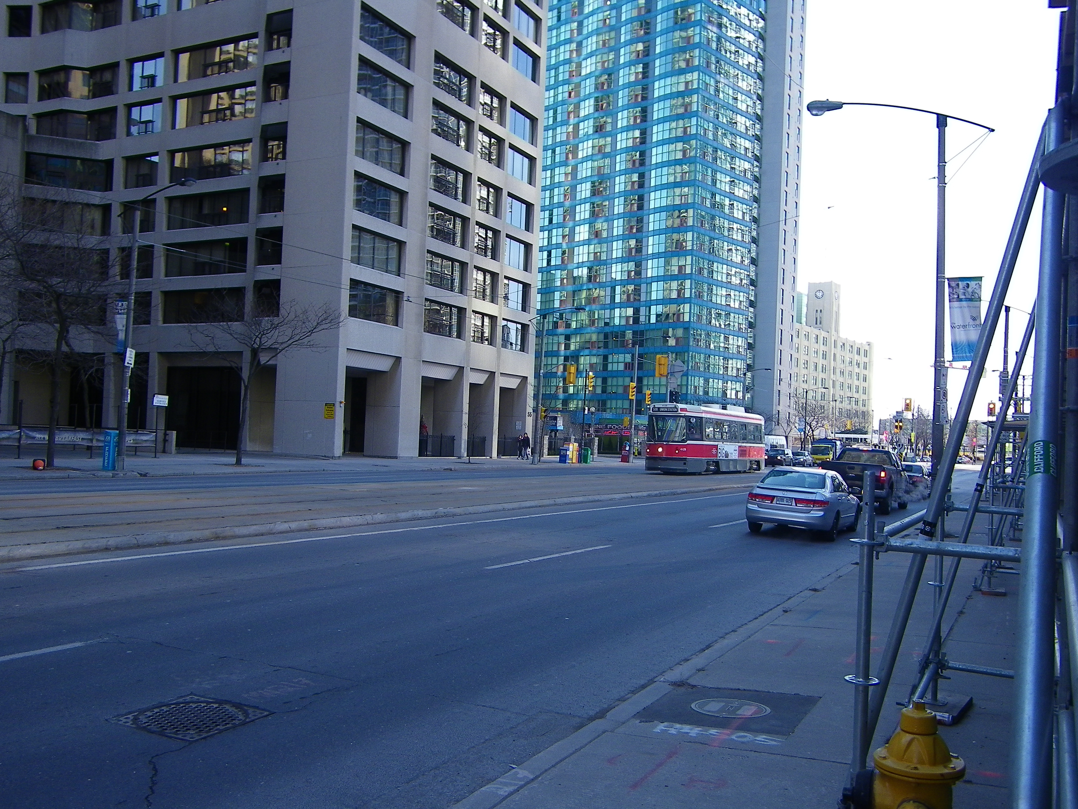 Streetcar heading East between York and Bay streets, Toronto.